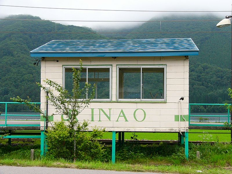 Inao Station, East Japan Railway